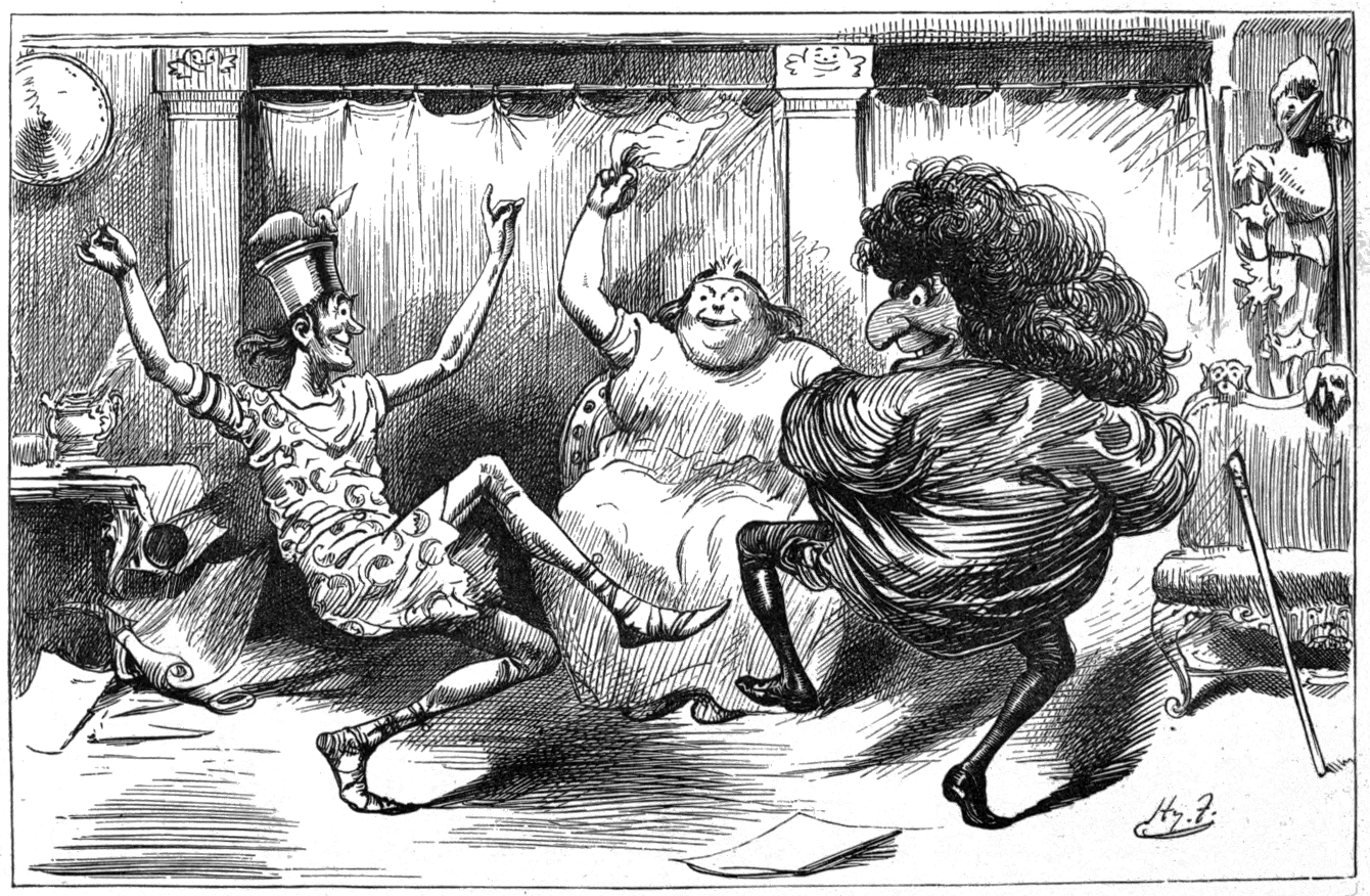 A Harry Furniss illustration from page 48 of the Lewis Carroll novel Sylvie and Bruno.